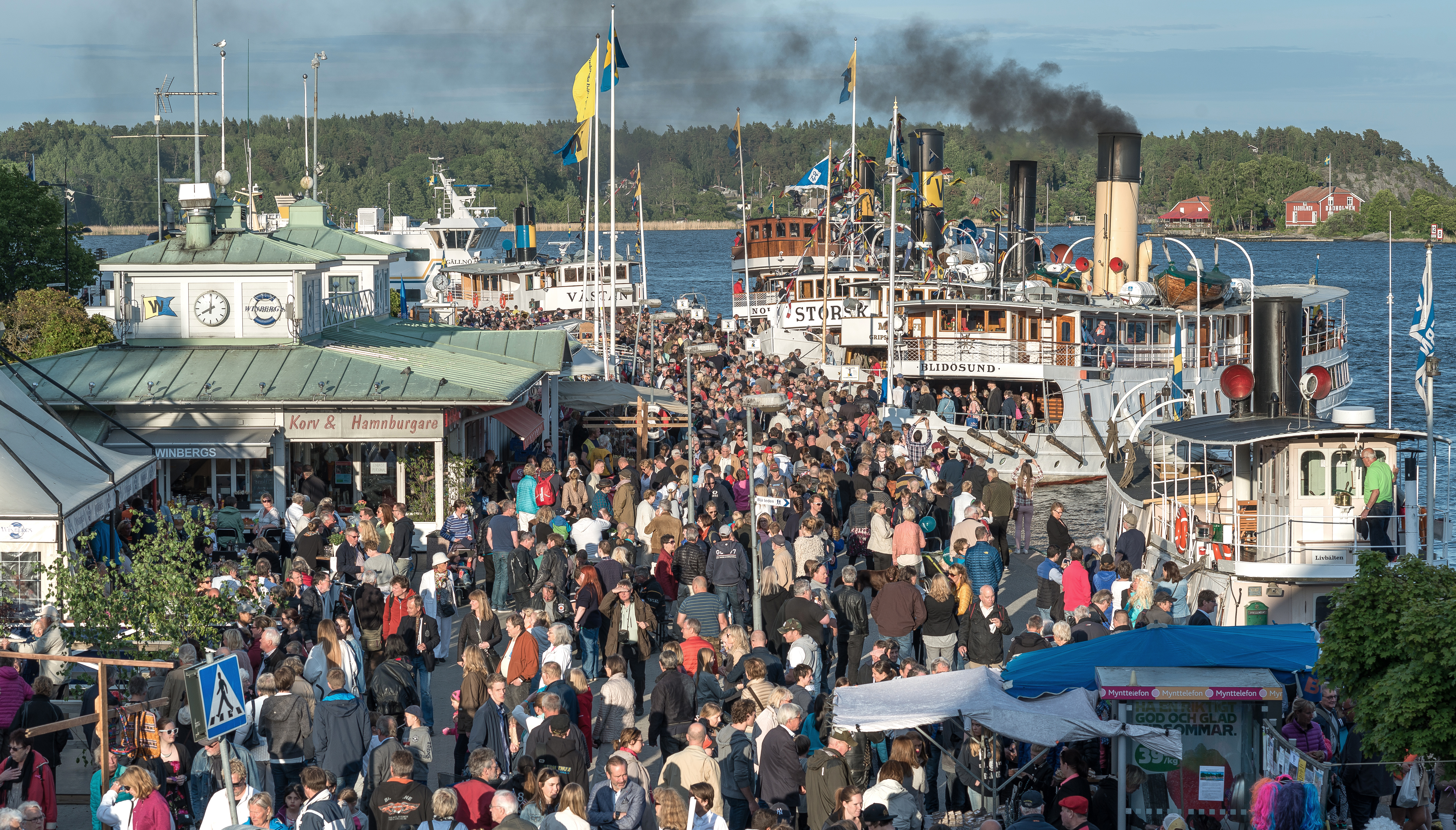 Steam Ship Day Vaxholm 2015